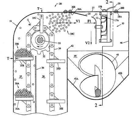 Patent drawing of the Ag Leader Mass flow sensor